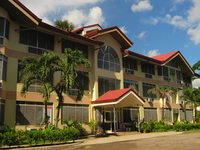 Vernon Hall (formerly New Men's Dormitory), Silliman University